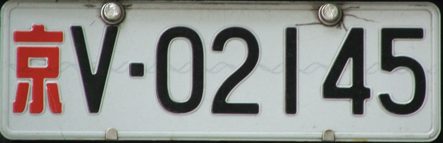 Vehicle licence plate from China as seen in 2008.